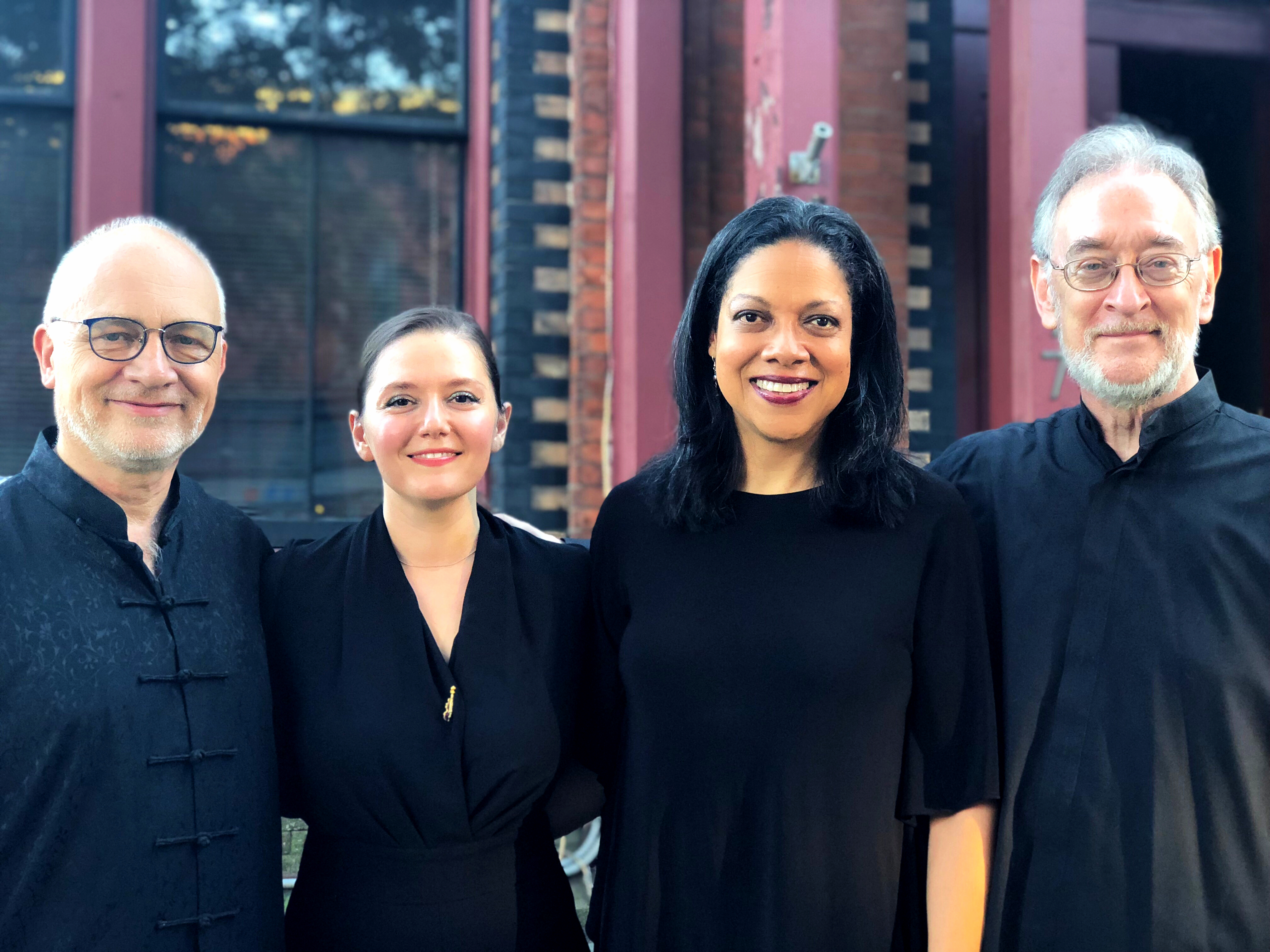 Juilliard String Quartet members in September 2018. Left to right: Roger Tapping, Areta Zhulla, Astrid Schween, and Ronald Copes